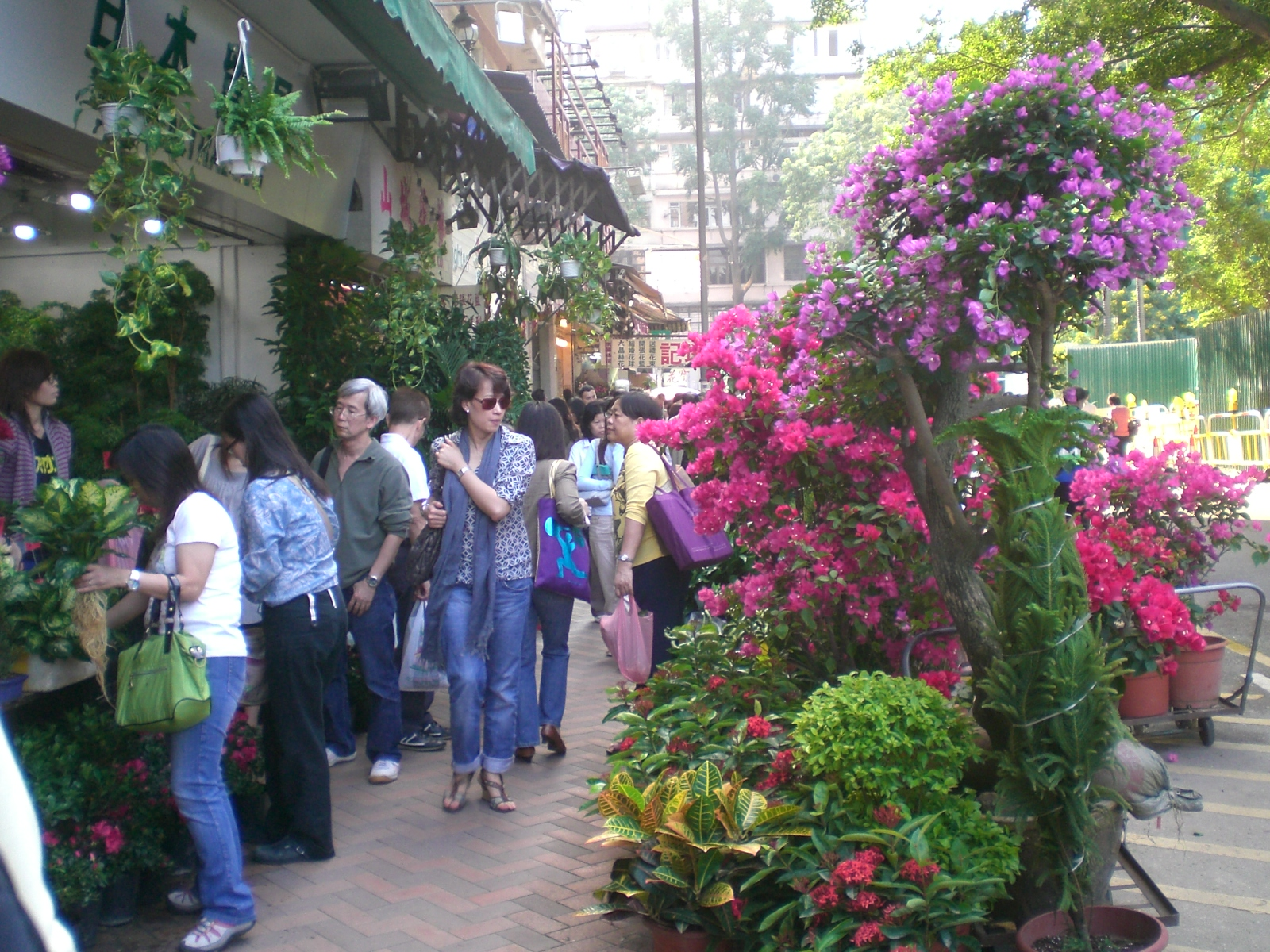 花墟道